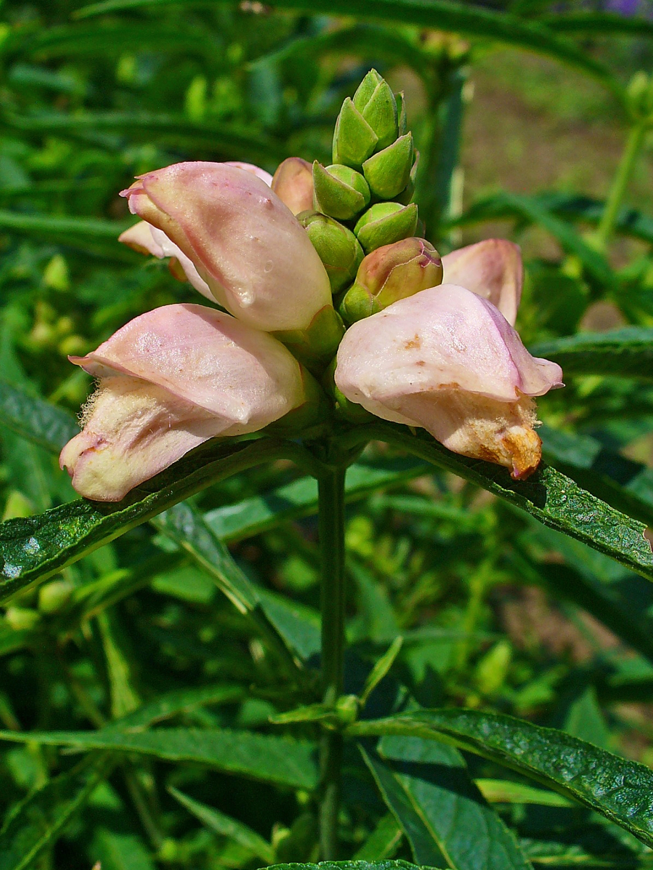 Chelone glabra, Plantaginaceae, White Turtlehead, inflorescence. The fresh aerial parts of the plant are used in homeopathy as remedy: Chelone glabra (Chelo.)